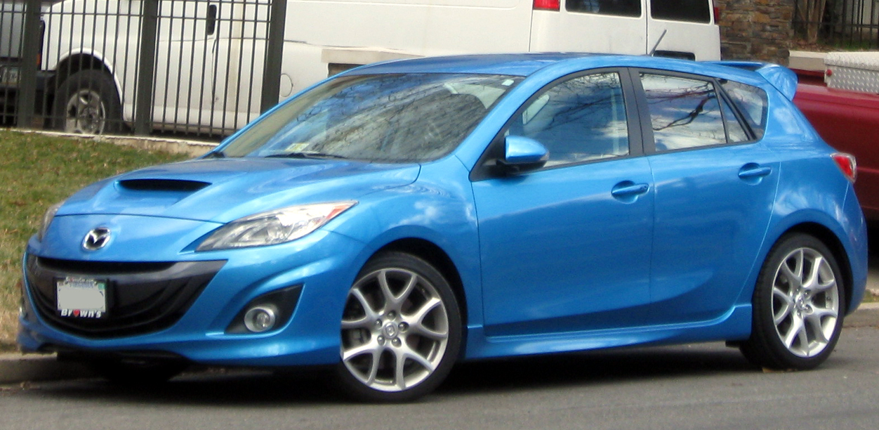 MazdaSpeed 3 photographed in Washington, D.C., USA.